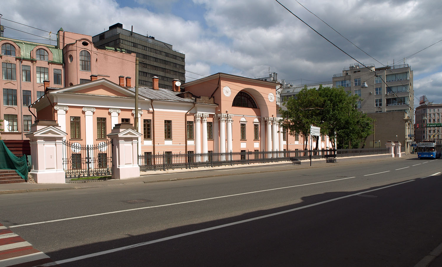 43, Myasnitskaya Street, Moscow. Lobanov-Rostovsky house, built in 1790s, is attributed to architect Francesco Camporesi. In late 19th century the large estate became a mechanical factory.